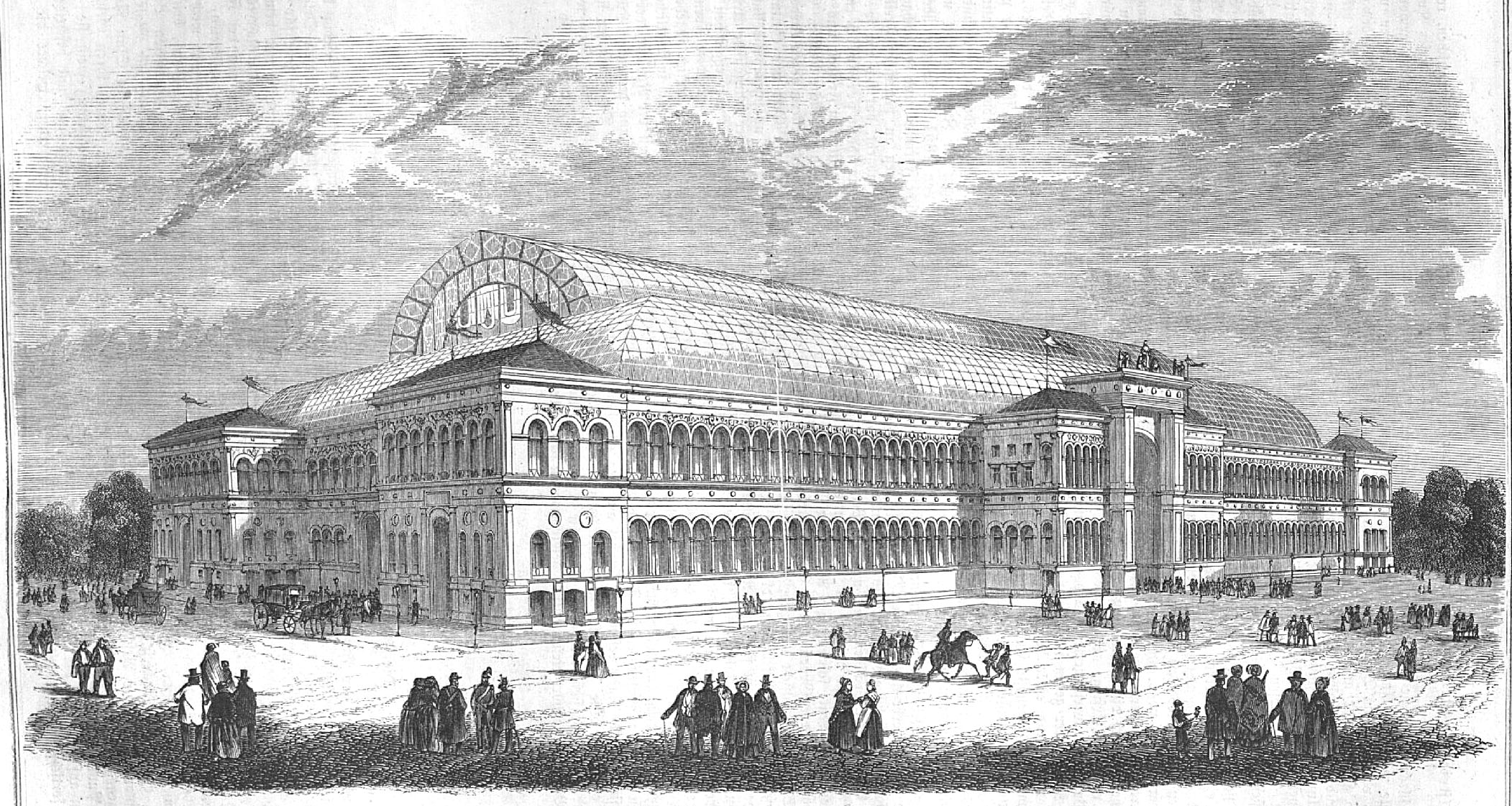 The Palais de l'Industrie in Paris. Image from page 181 of the journal Die Gartenlaube, 1855.